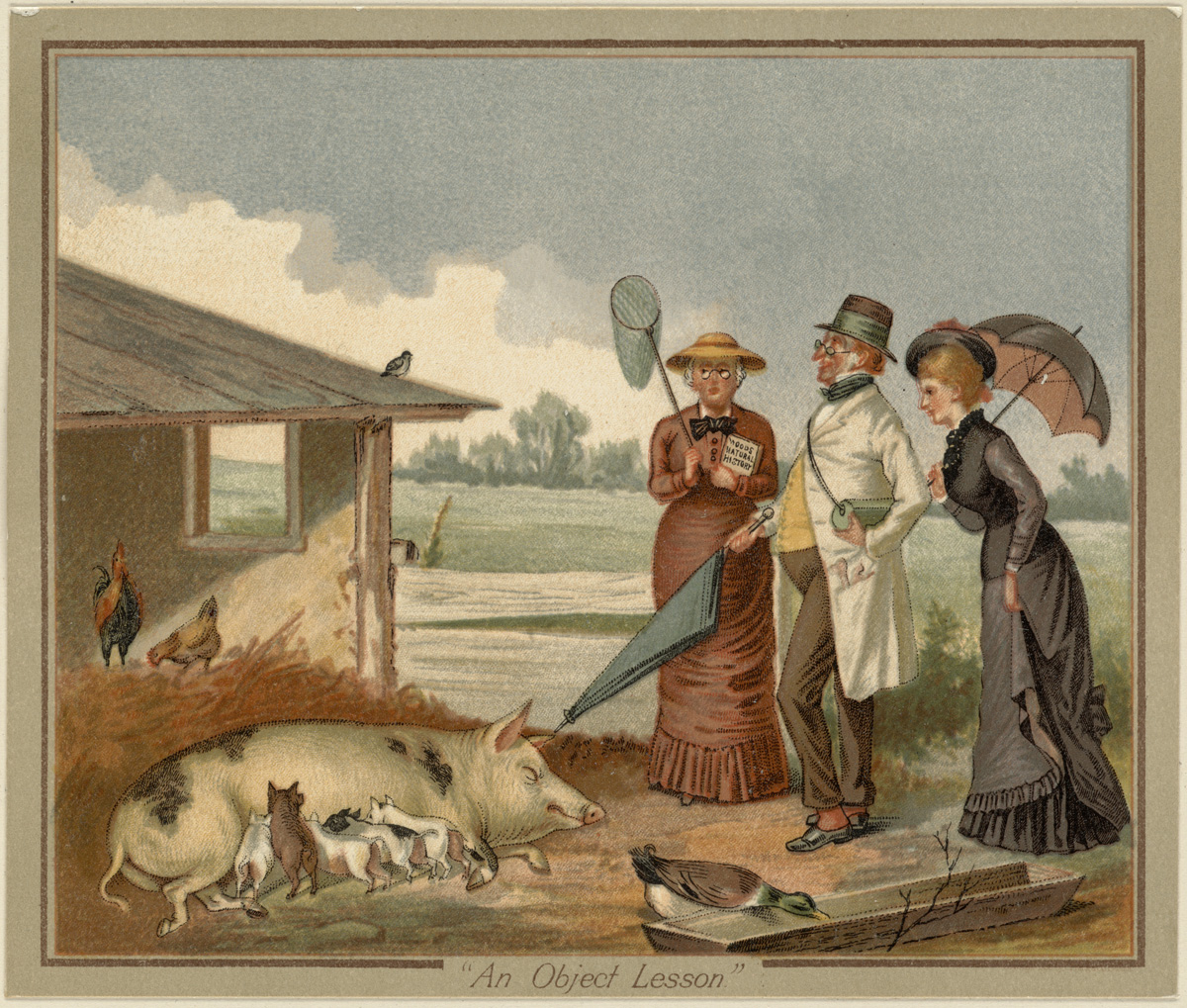 File name: 07_11_001179 Title: An Object Lesson Creator/Contributor: Bensell, Edmund Birckhead, b. 1842 (artist); L. Prang & Co. (publisher) Date issued: 1861-1897 (approximate) Copyright date: Physical description note: Genre: Chromolithographs; Genre prints; Group portraits Location: Boston Public Library, Print Department Rights: No known restrictions Flickr data on 2011-08-04: Camera: Sinar AG Sinarback 54 FW, Sinar m License: CC BY 2.0 User: Boston Public Library BPL